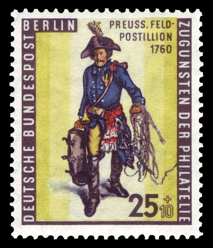 Day of stamps 1955 Graphics by Goldammer Ausgabepreis: 25+10 Pfennig First Day of Issue / Erstausgabetag: 27. Oktober 1955 Michel-Katalog-Nr: 131 (Berlin)